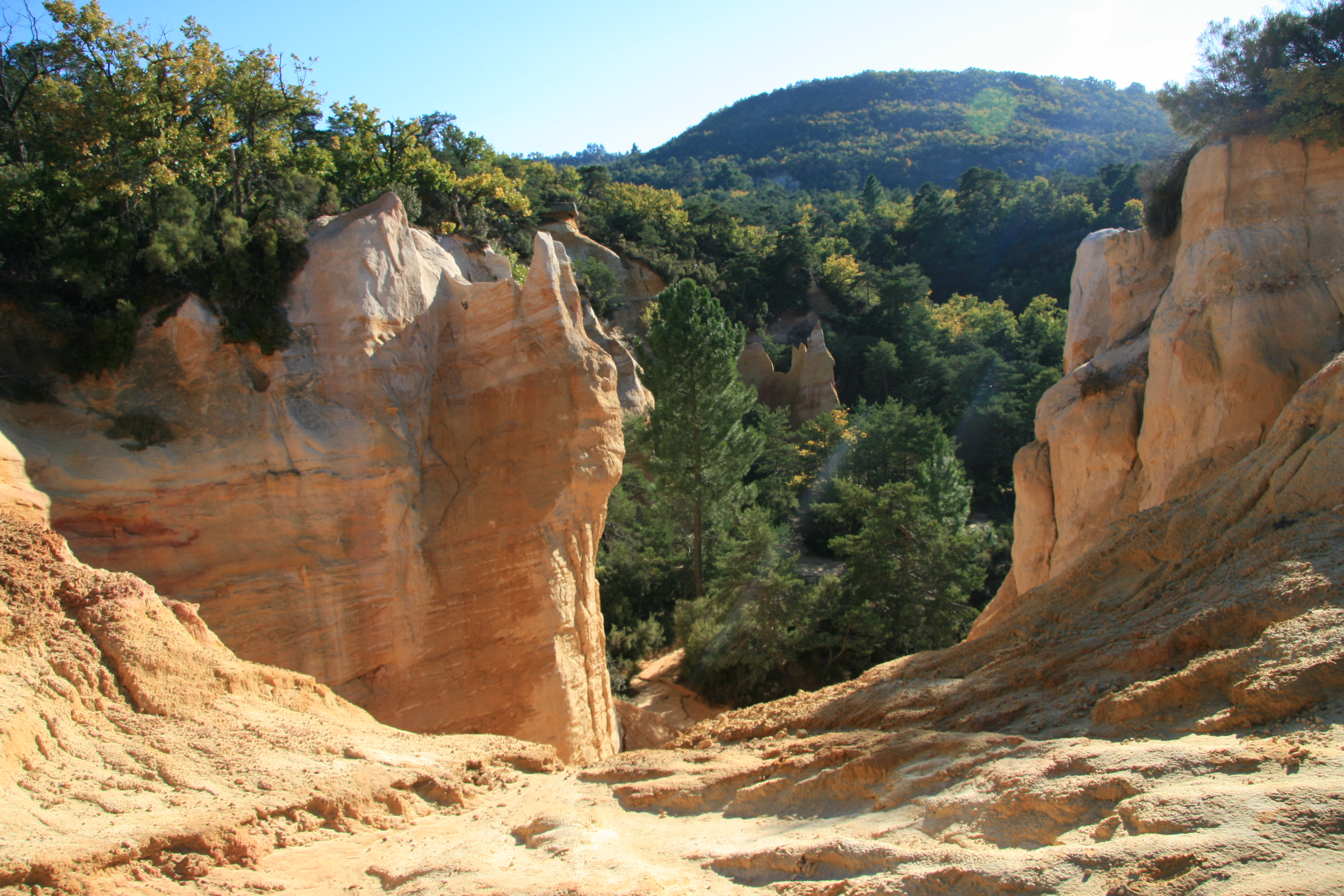 Trail in the Colorado Provençal in Rustrel